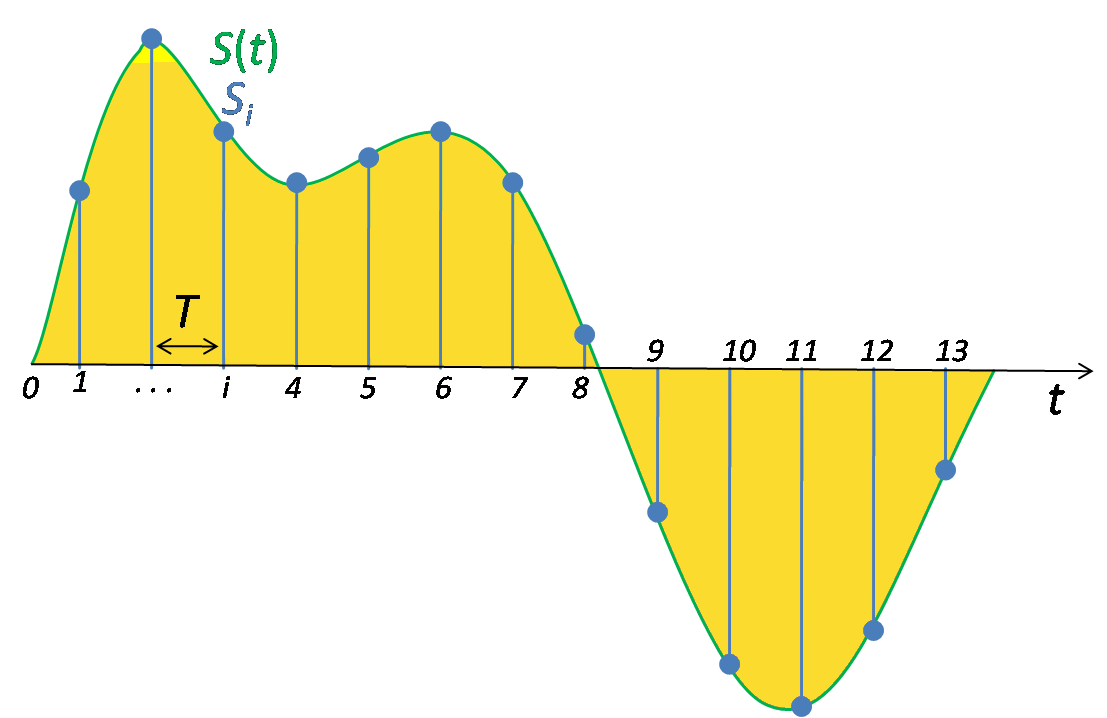 Sampling demonstration used in signal processing.